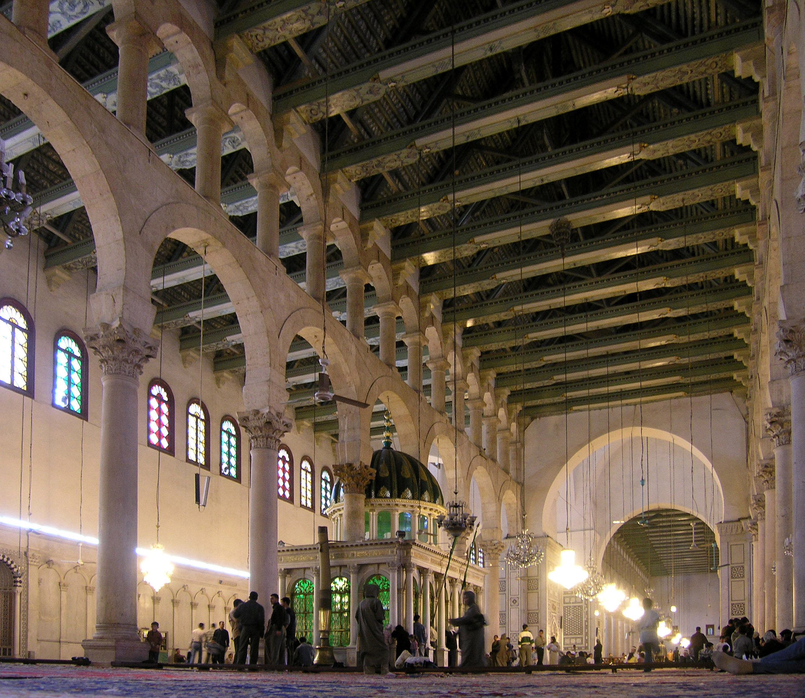 interior of the great mosque, containing the shrine of st. john the baptist.